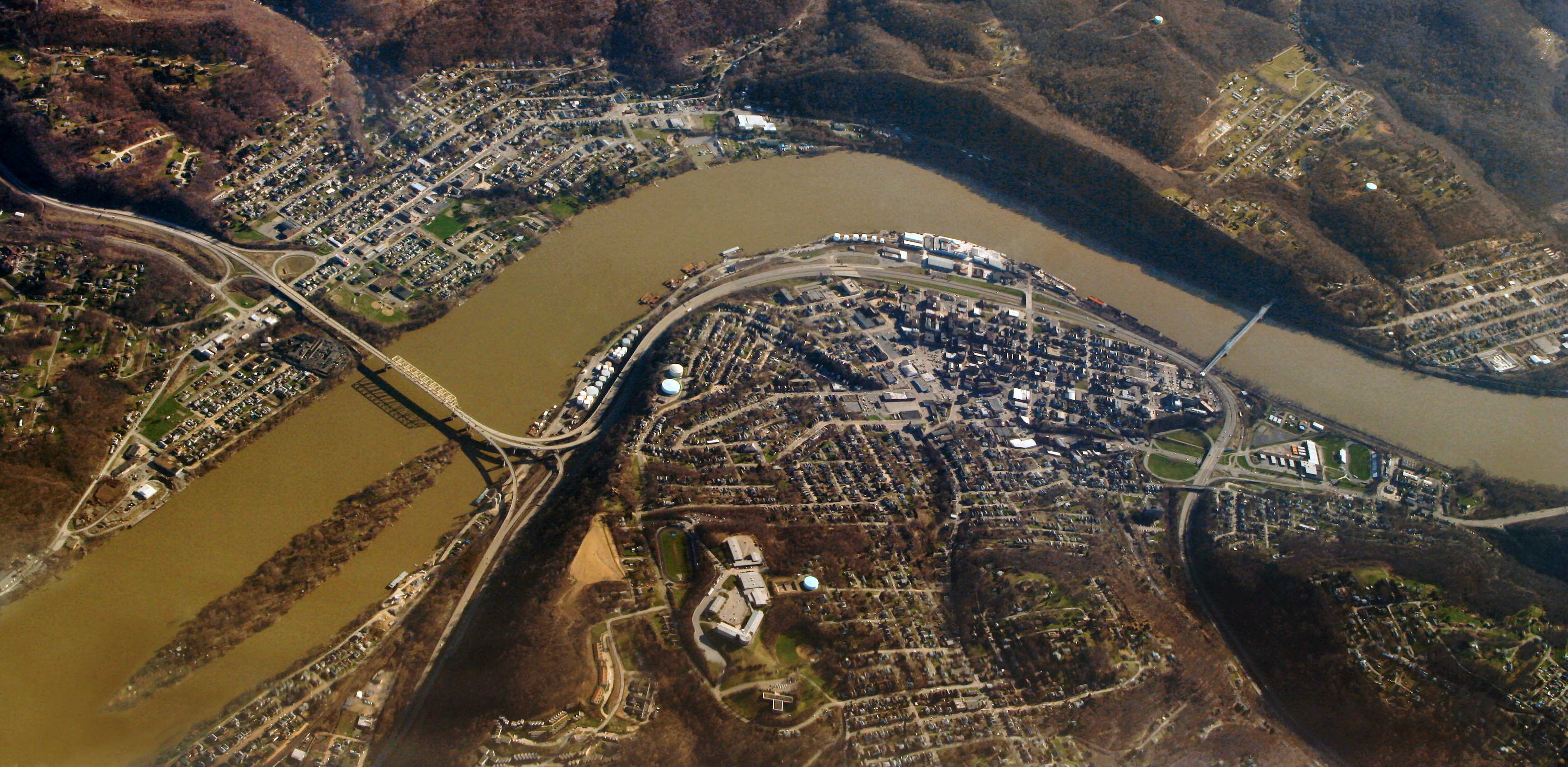 East Liverpool, Ohio, looking south.